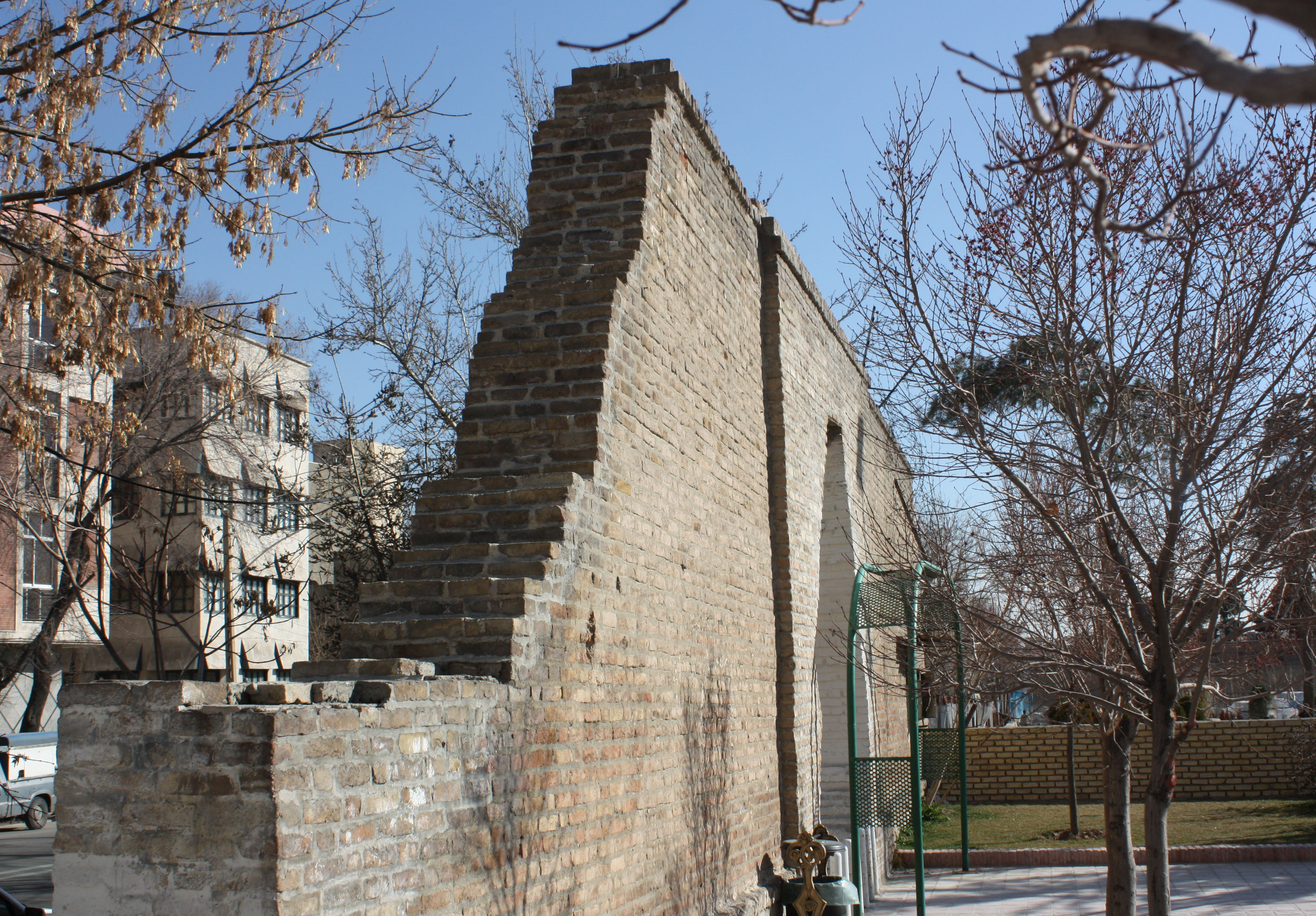 Qasr Prison